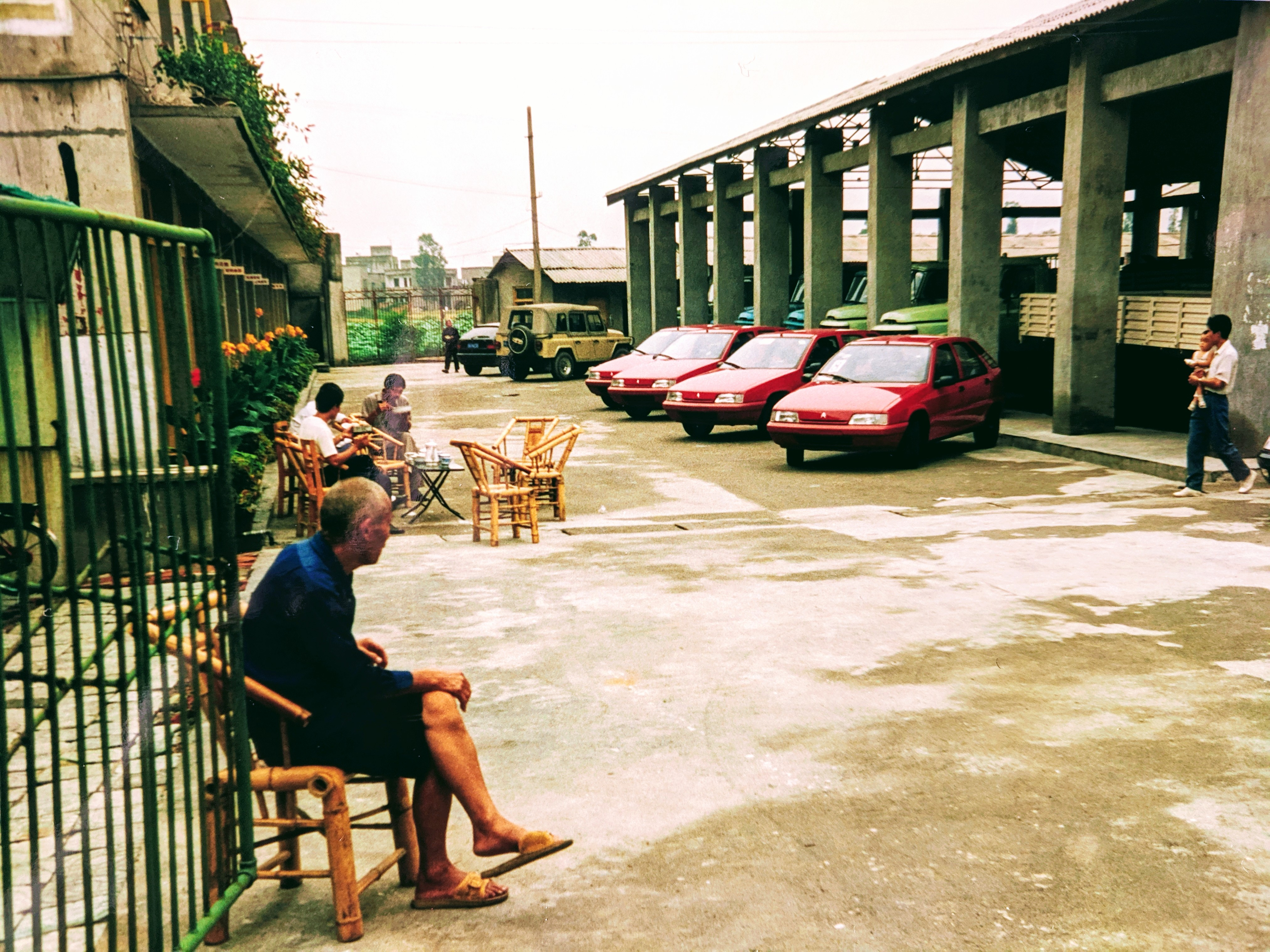 Citroën ZX - truck and auto dealer - Chengdu, China 1994